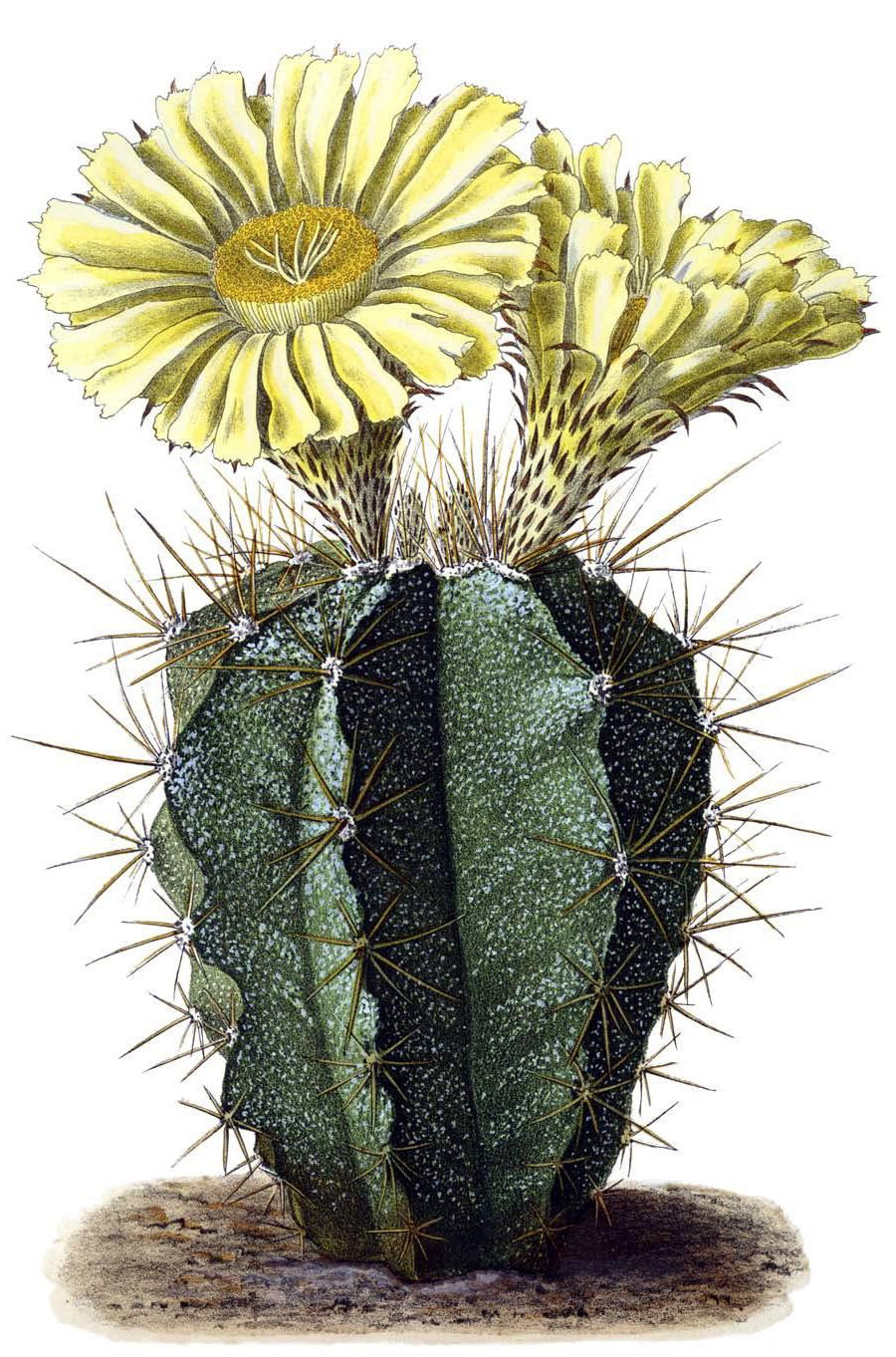 Astrophytum ornatum